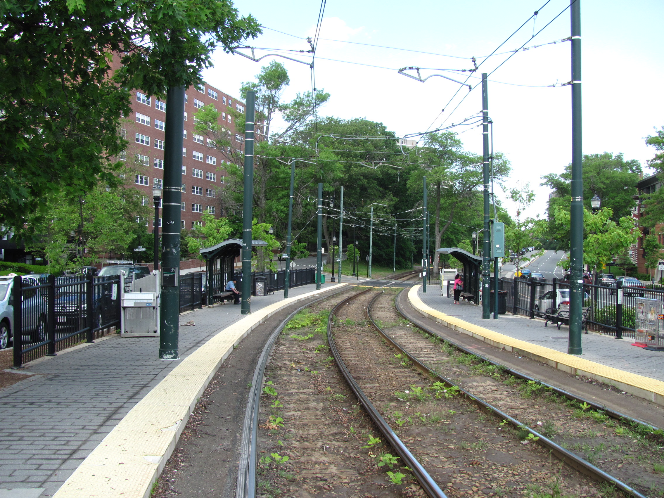 Washington Square MBTA station, Brookline Massachusetts